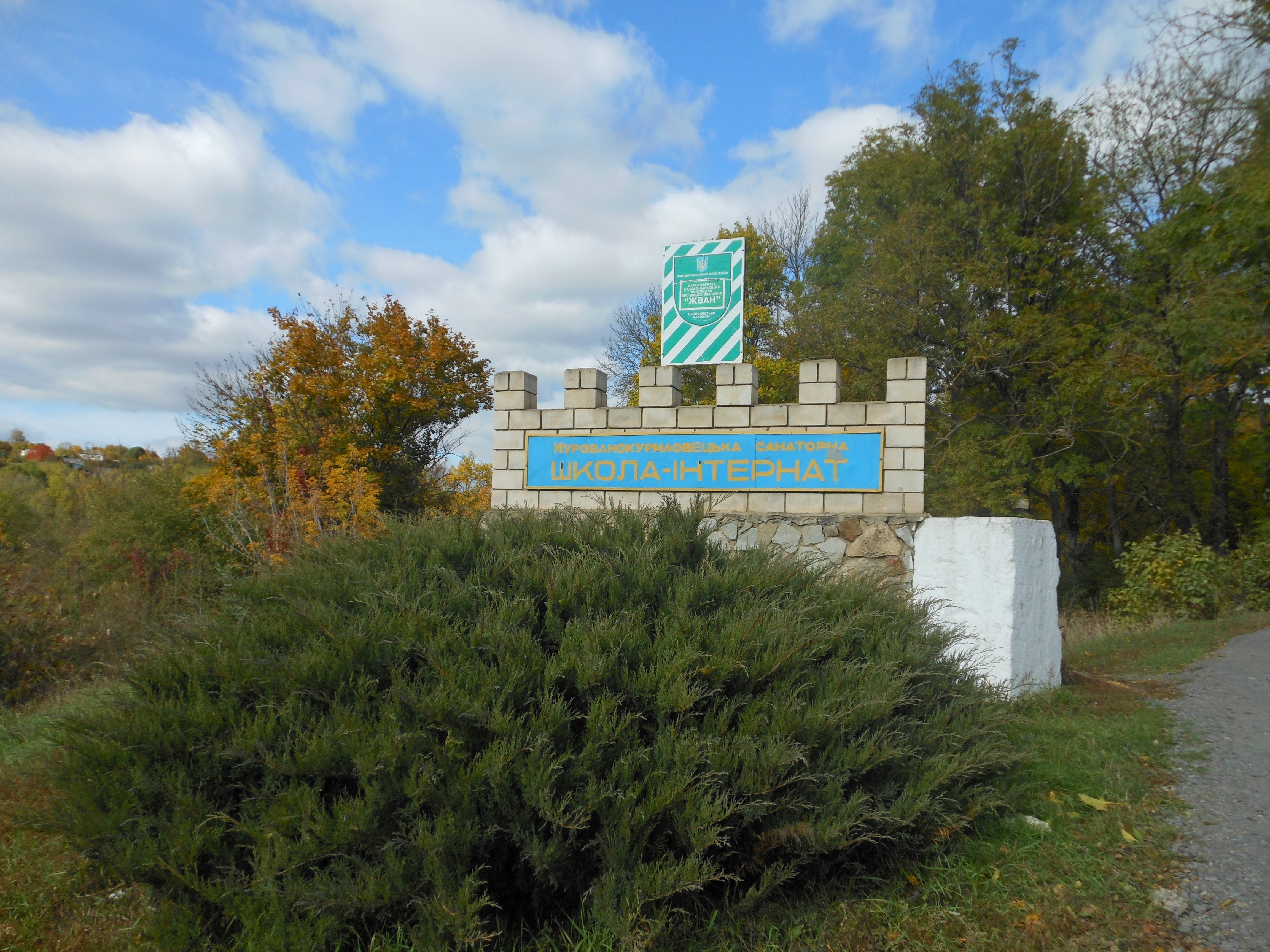 Zhvan Park (Murovani Kurylivtsi)